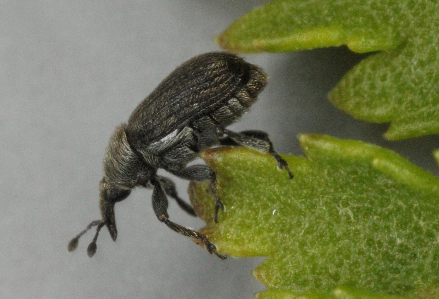 Rhinusa antirrhini, Deeside, North Wales, July 2011 2